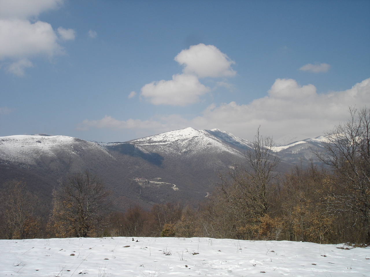 Monastey Zrze on Dautica mountain, Macedonia